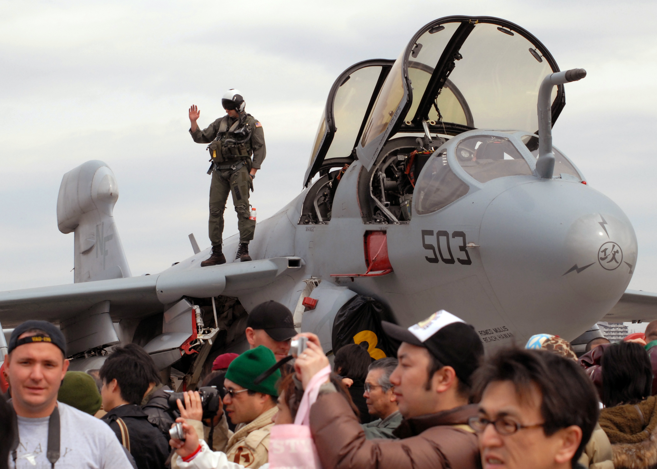 ATSUGI, Japan (March 28, 2009) Lt.j.g. Ben Reust, a pilot assigned to Electronic Attack Squadron (VAQ) 136, poses for photos on the wing of an EA-6B Prowler aircraft during the Naval Air Facility annual Cherry Blossom Festival and aircraft viewing. The festival featured static displays of Carrier Air Wing (CVW) 5 aircraft, various live music and dance performances along with a day of food, fun and friendship. (U.S. Navy photo by Mass Communication Specialist 3rd Class Barry Riley/Released)